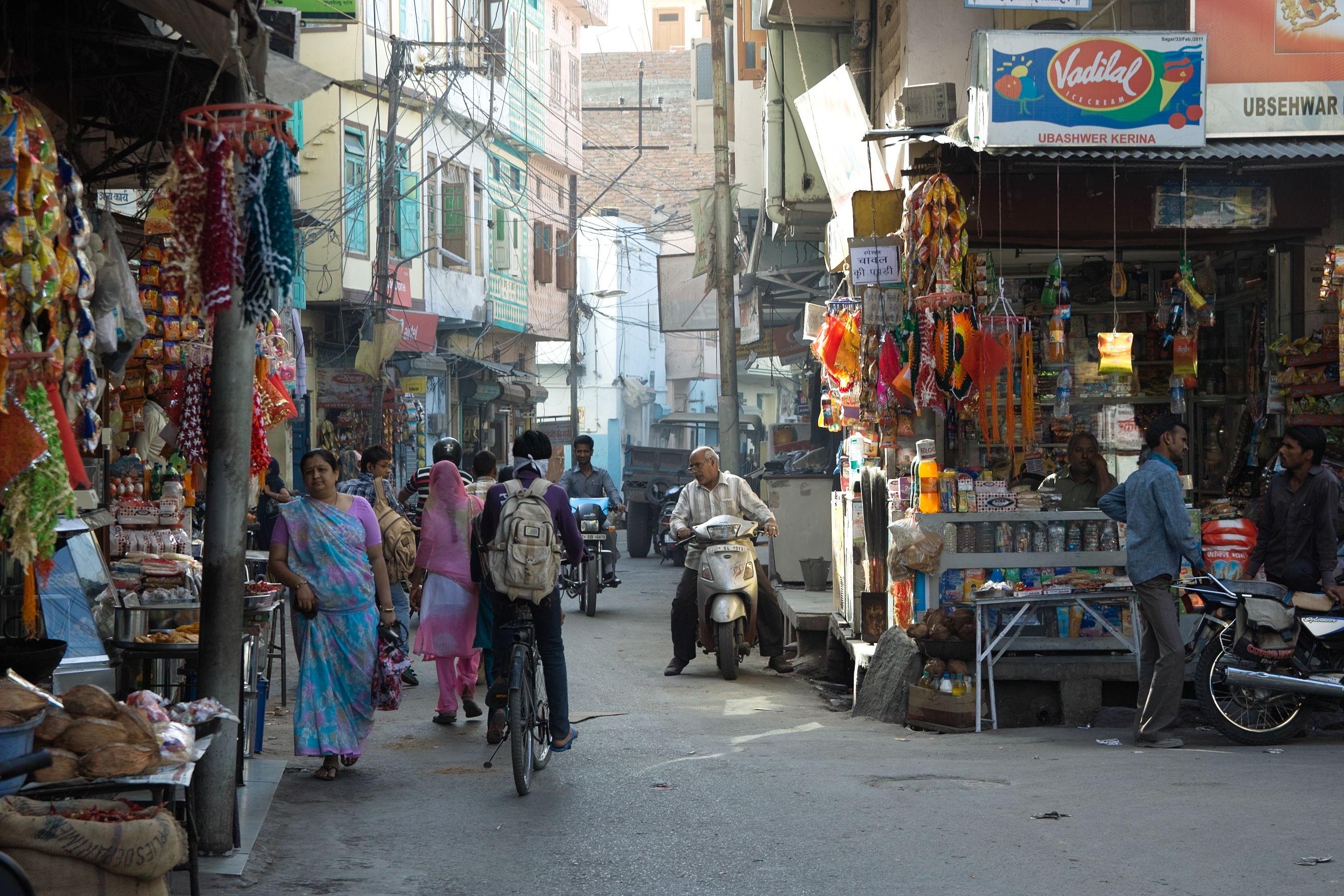 A street with non-tourist shops in Udaipur.